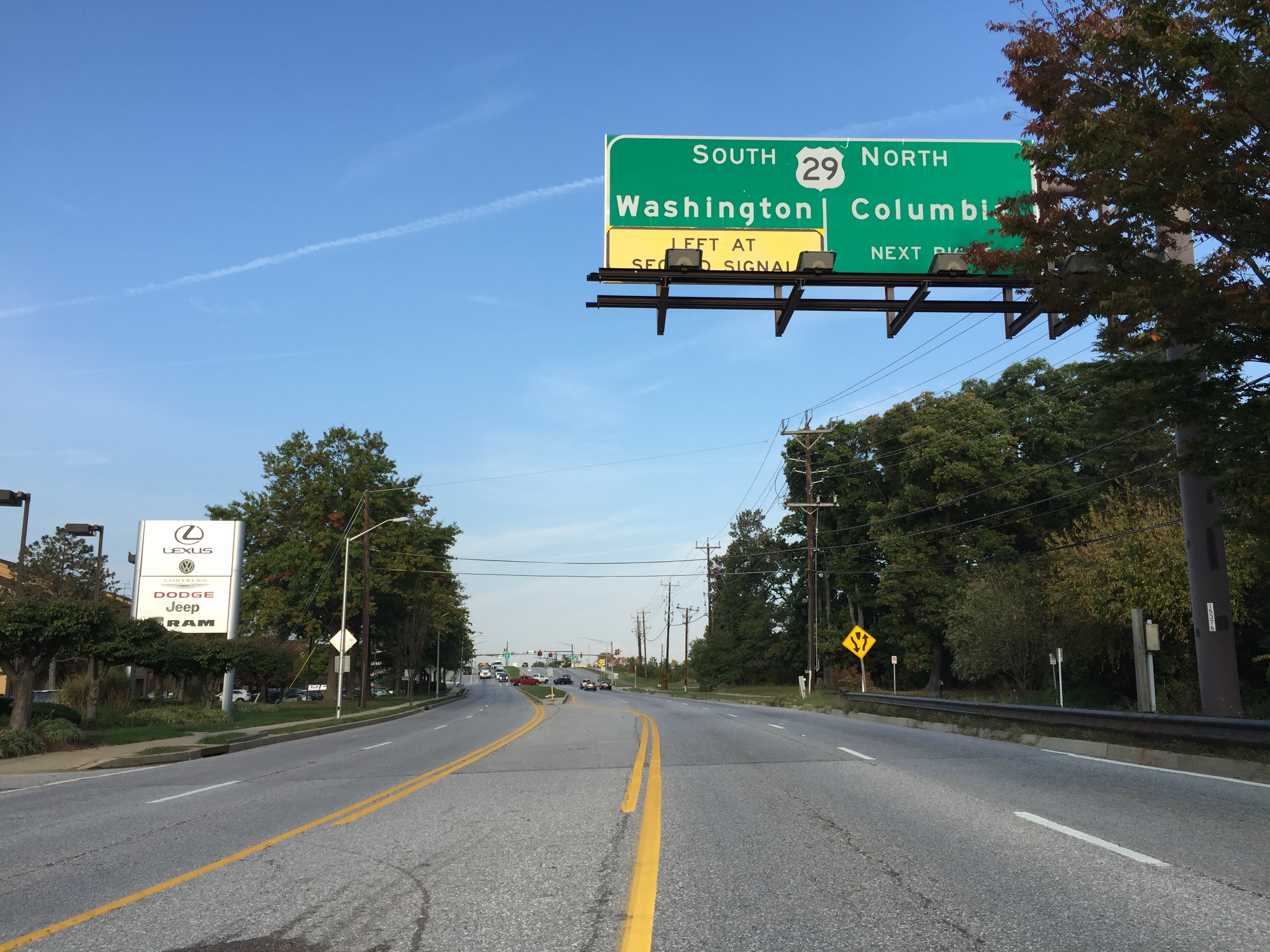 View west-northwest along Maryland State Route 929 (Cherry Hill Road) between Ofallon Street and Prosperity Drive in Calverton, Montgomery County, Maryland